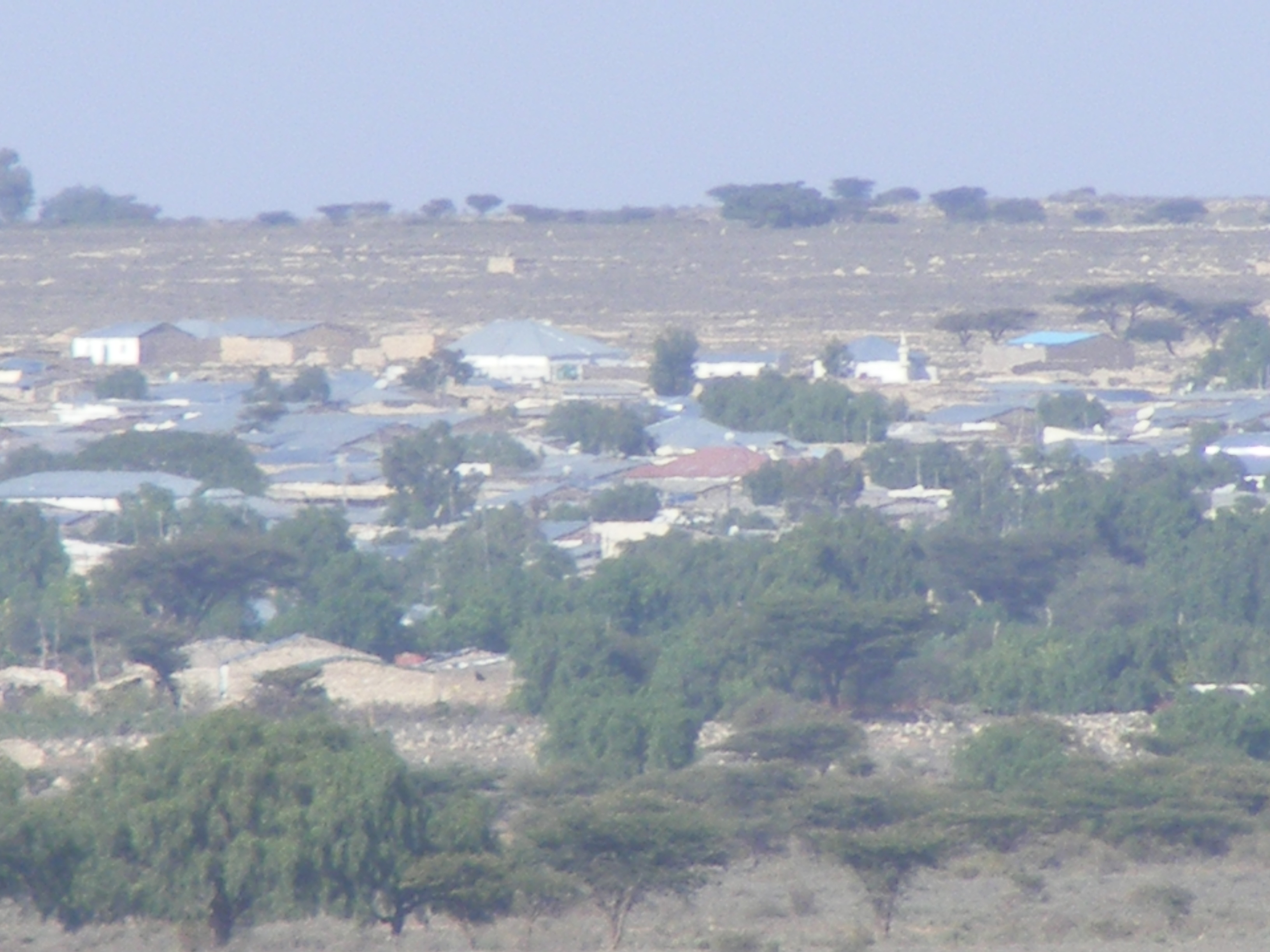 City of Erigavo, Sanaag, Somalia